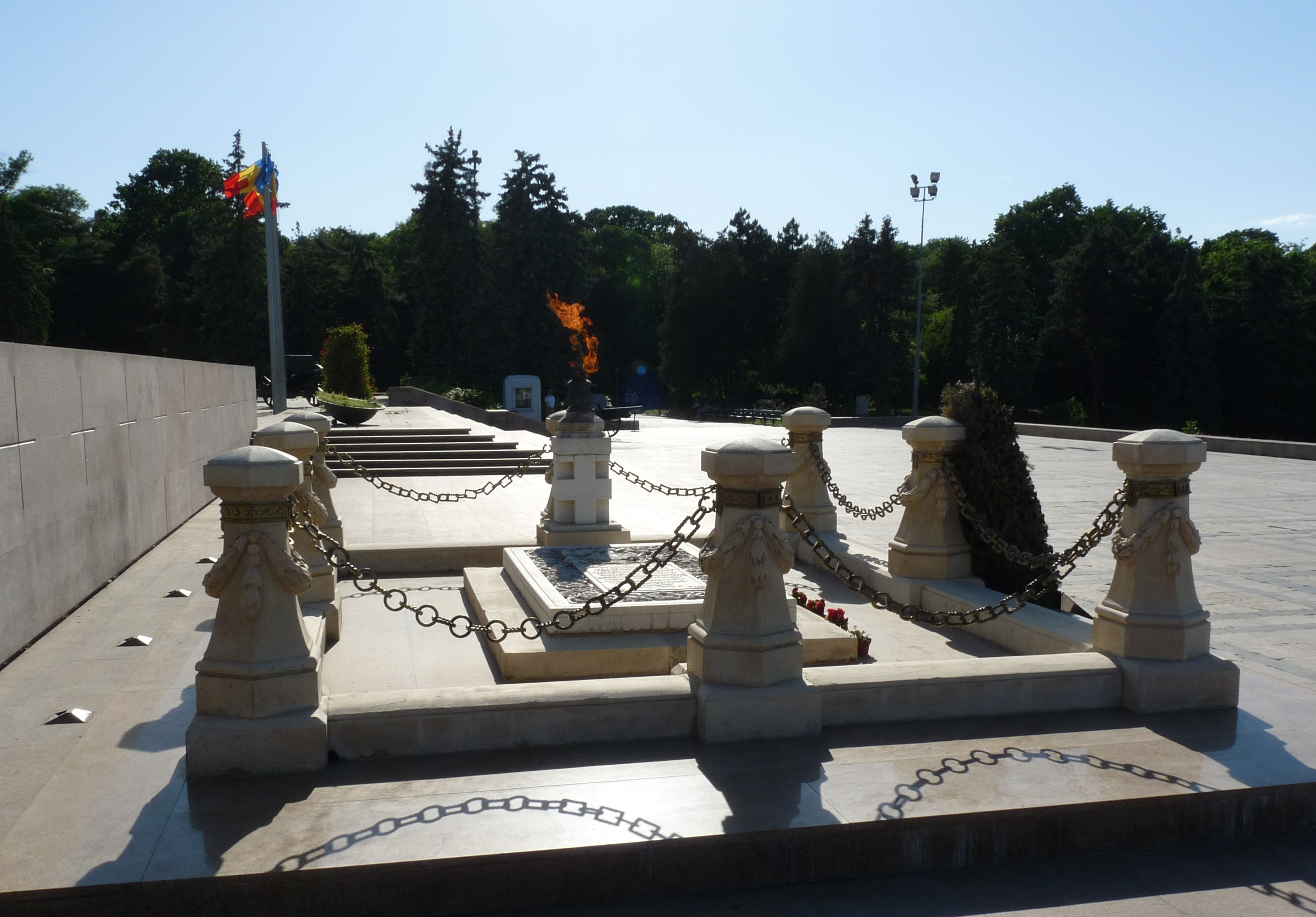 The Tomb of the Unknown Soldier in Bucharest, Romania